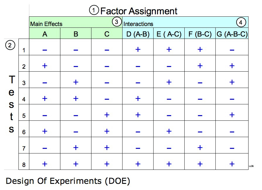 Design Of Experiments (DOE). Example factor assignment & test matrix. December 2006 Laurens van Lieshout